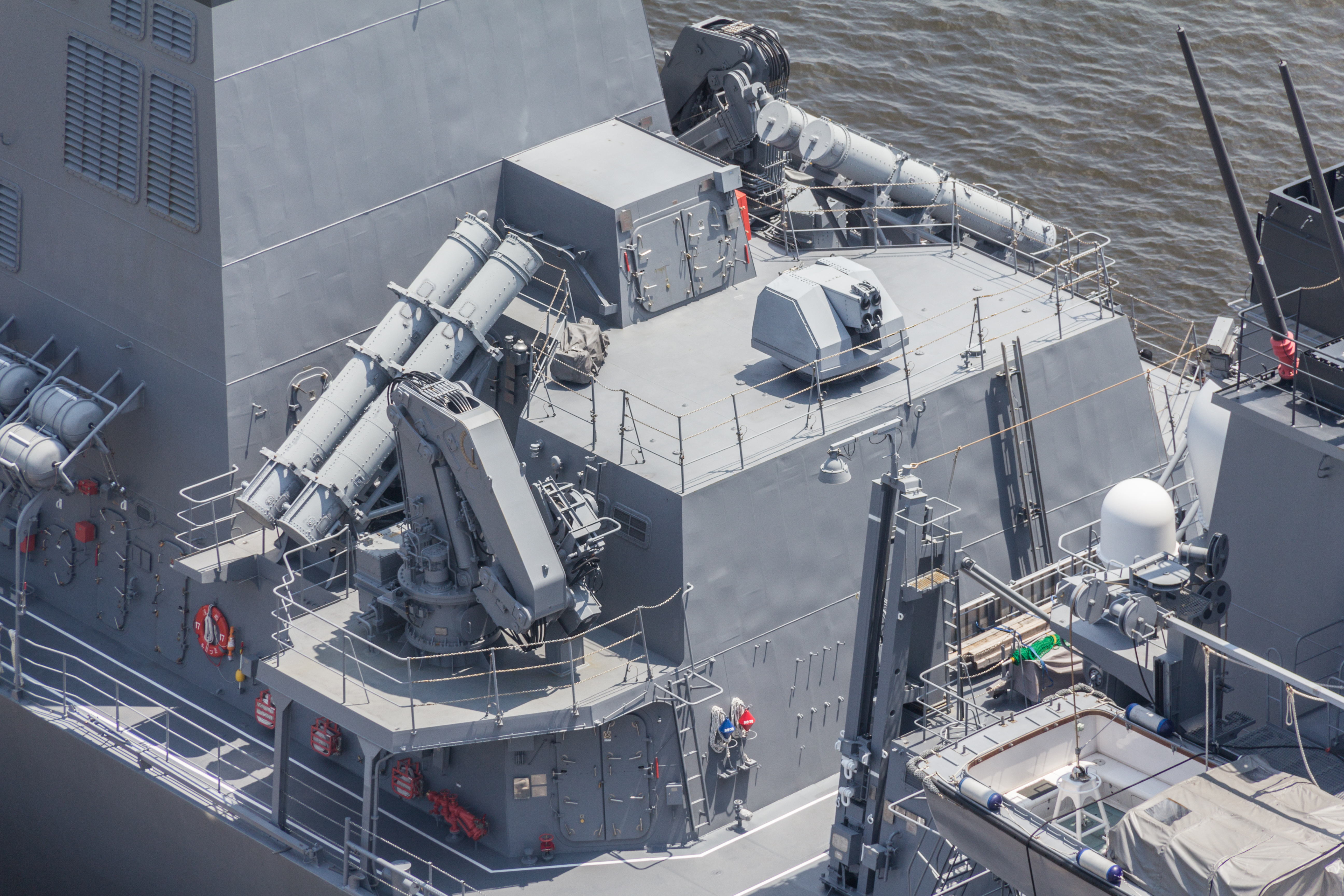 SSM-1B and FAJ (Floating Acoustic Jammer) on JS DD115 Akizuki at Nagoya (2013 August 4th)